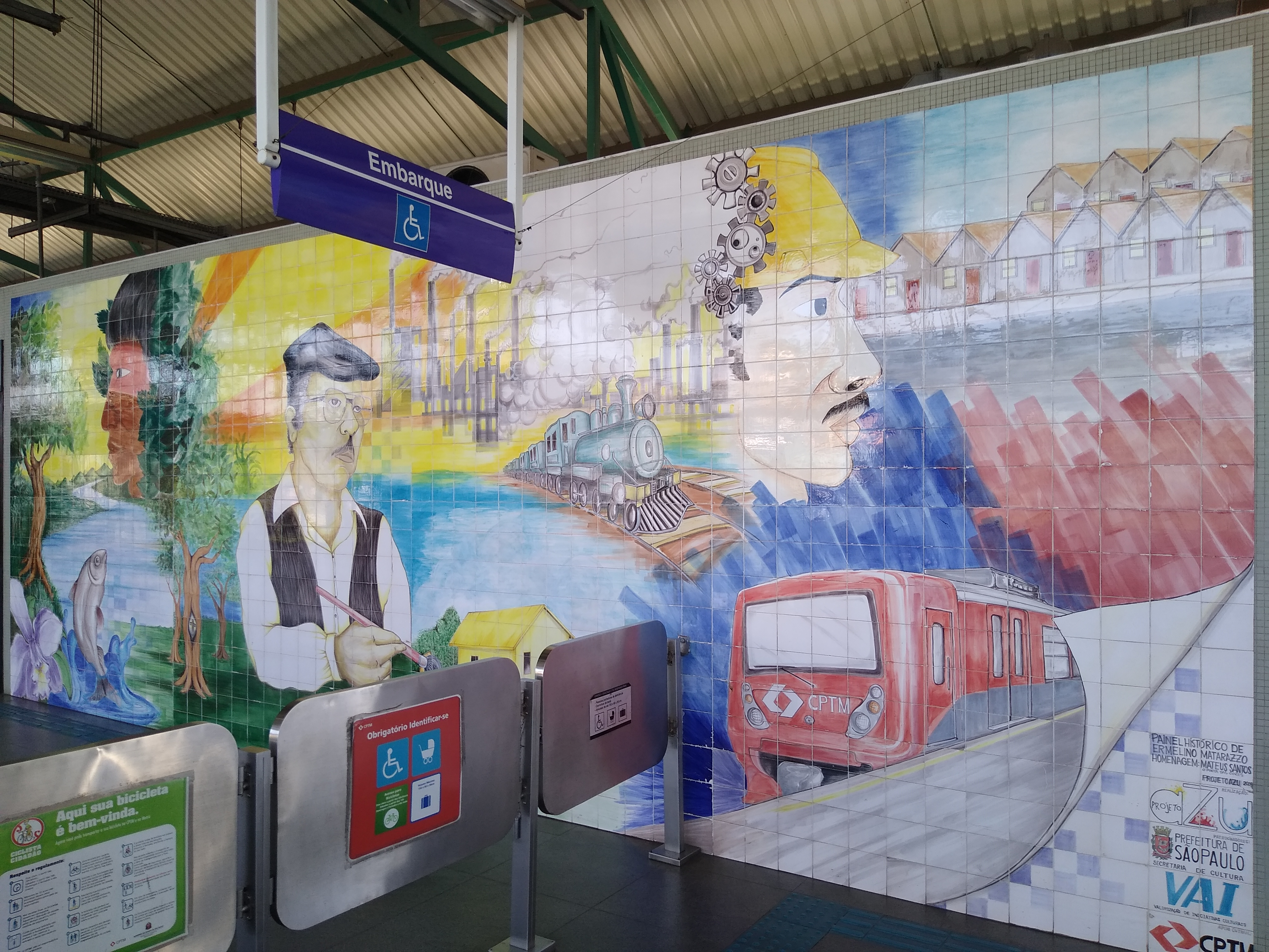 Mural ermelino